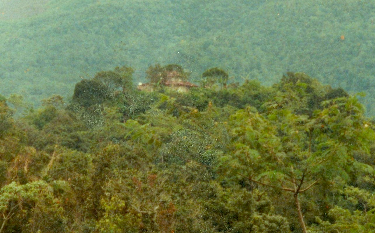 Southern slopes of Mount Merapi in Central Java - Plawangan observation post 1985 (scan of dirty print, no exif data available)